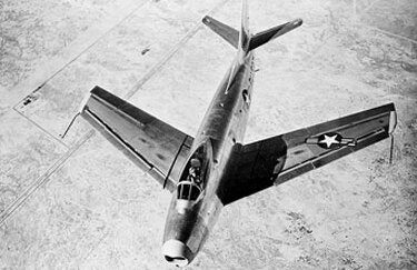 North American XP-86 Sabre in flight over the Mojave Desert in California, USA. The XP-86 was the prototype of the F-86 Sabre.